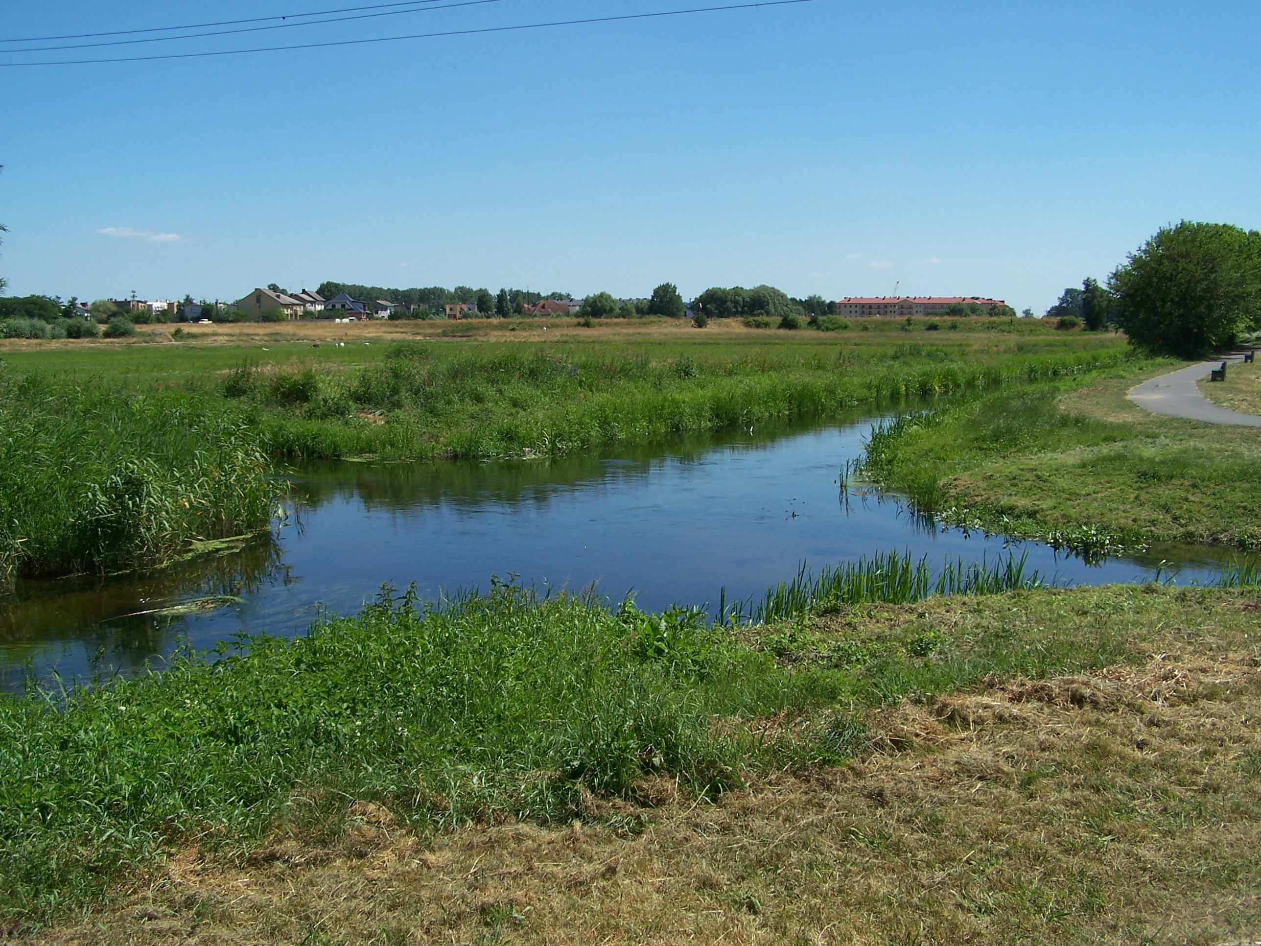 Intersection of two rivers: Nielba and Wełna in Wagrowiec (Poland)